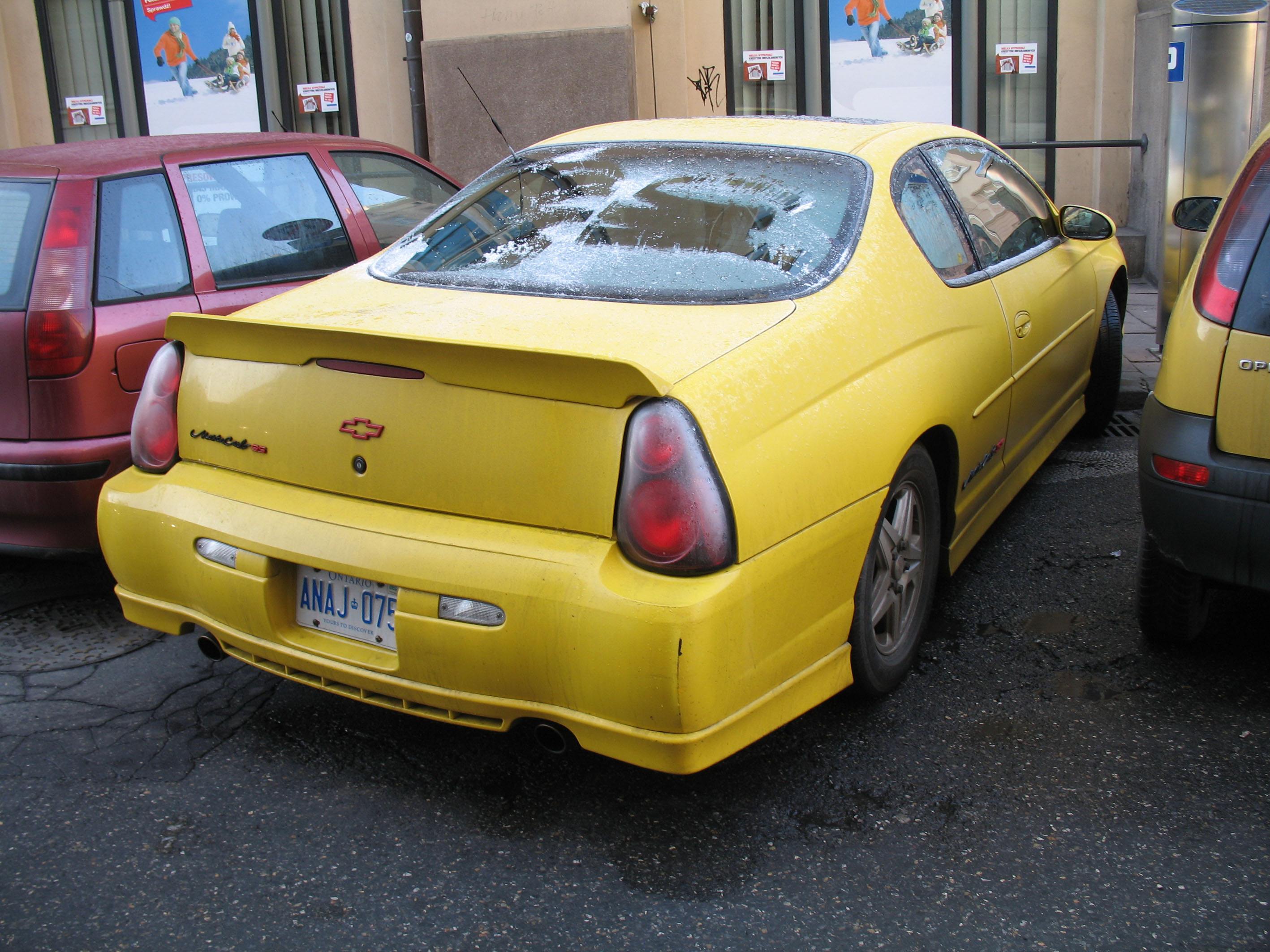 Chevrolet Monte Carlo SS Mk6 car in Kraków, Poland.